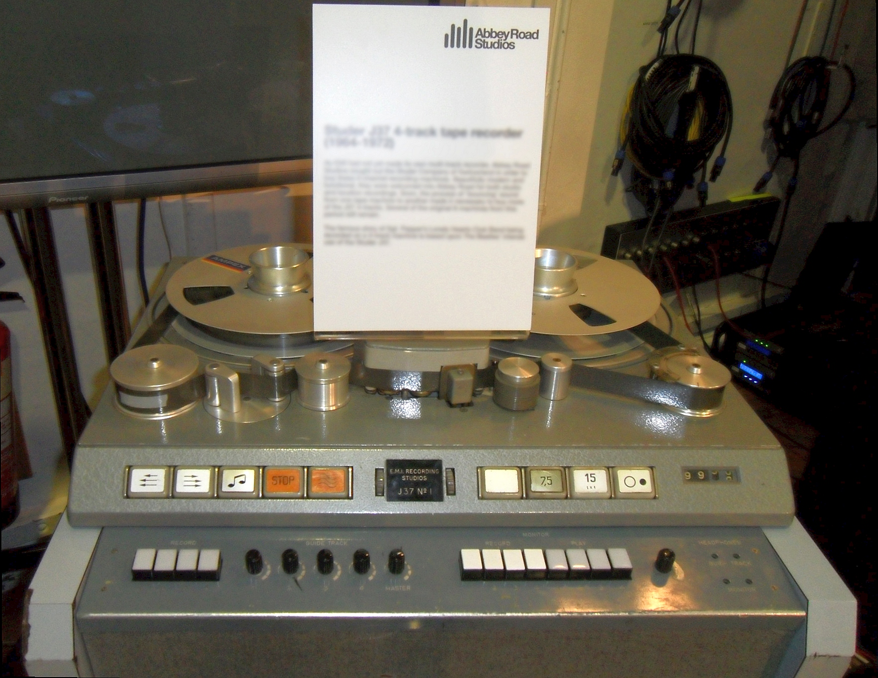 Studer J37 4-track tape recorder (1964–1972)